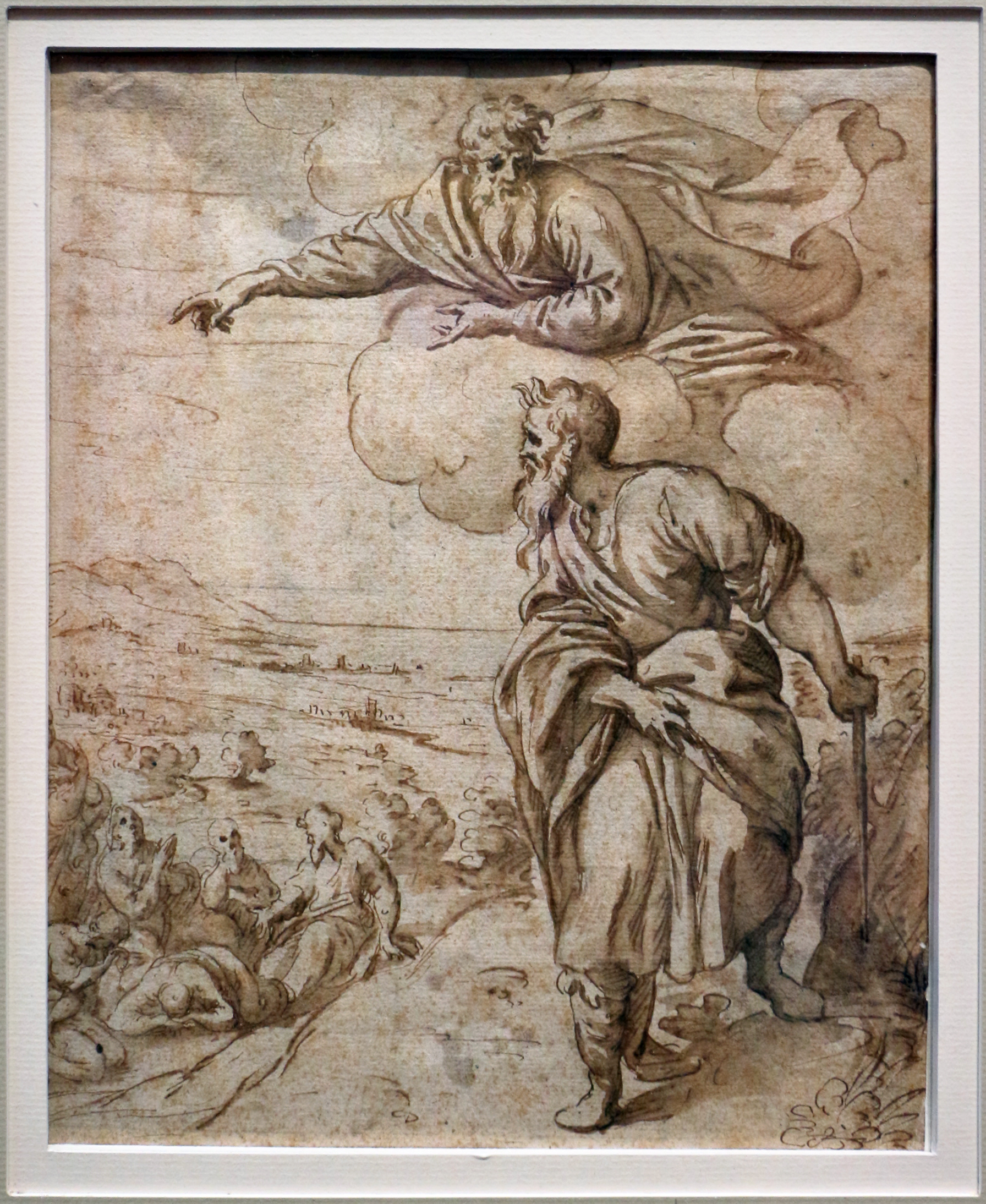 Exhibition From Floris to Rubens Master drawings from a Belgian private collection